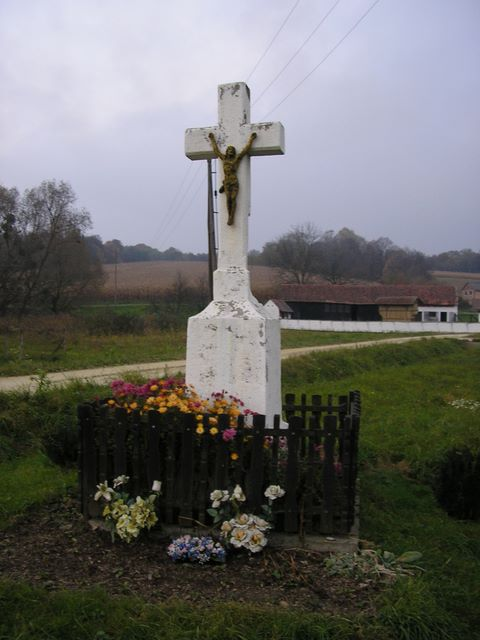 Crucifix in Donje Zdjelice